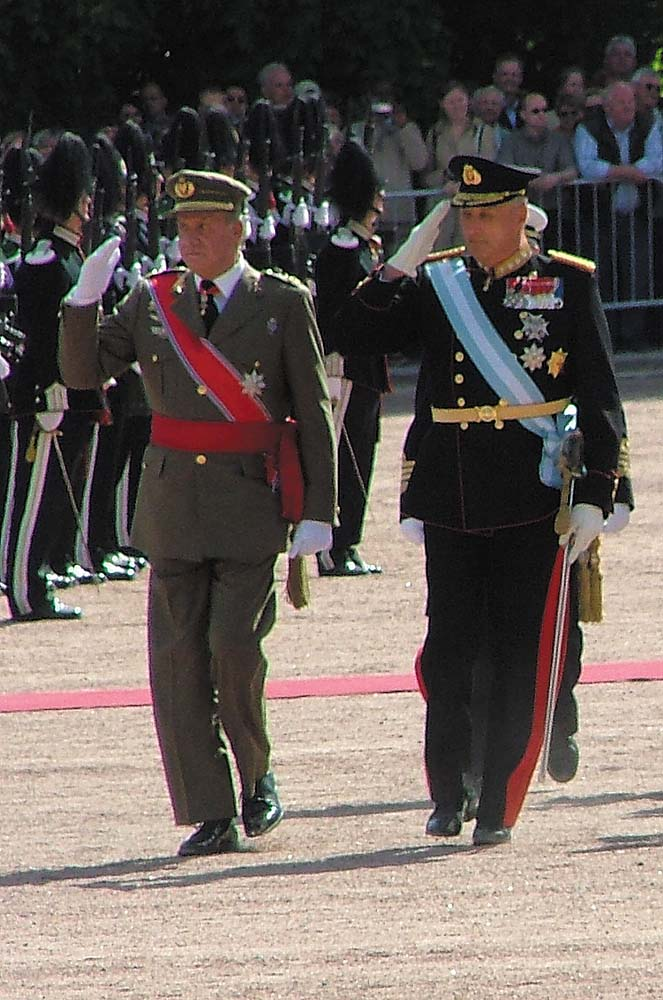 Juan Carlos I of Spain and Harald V of Norway